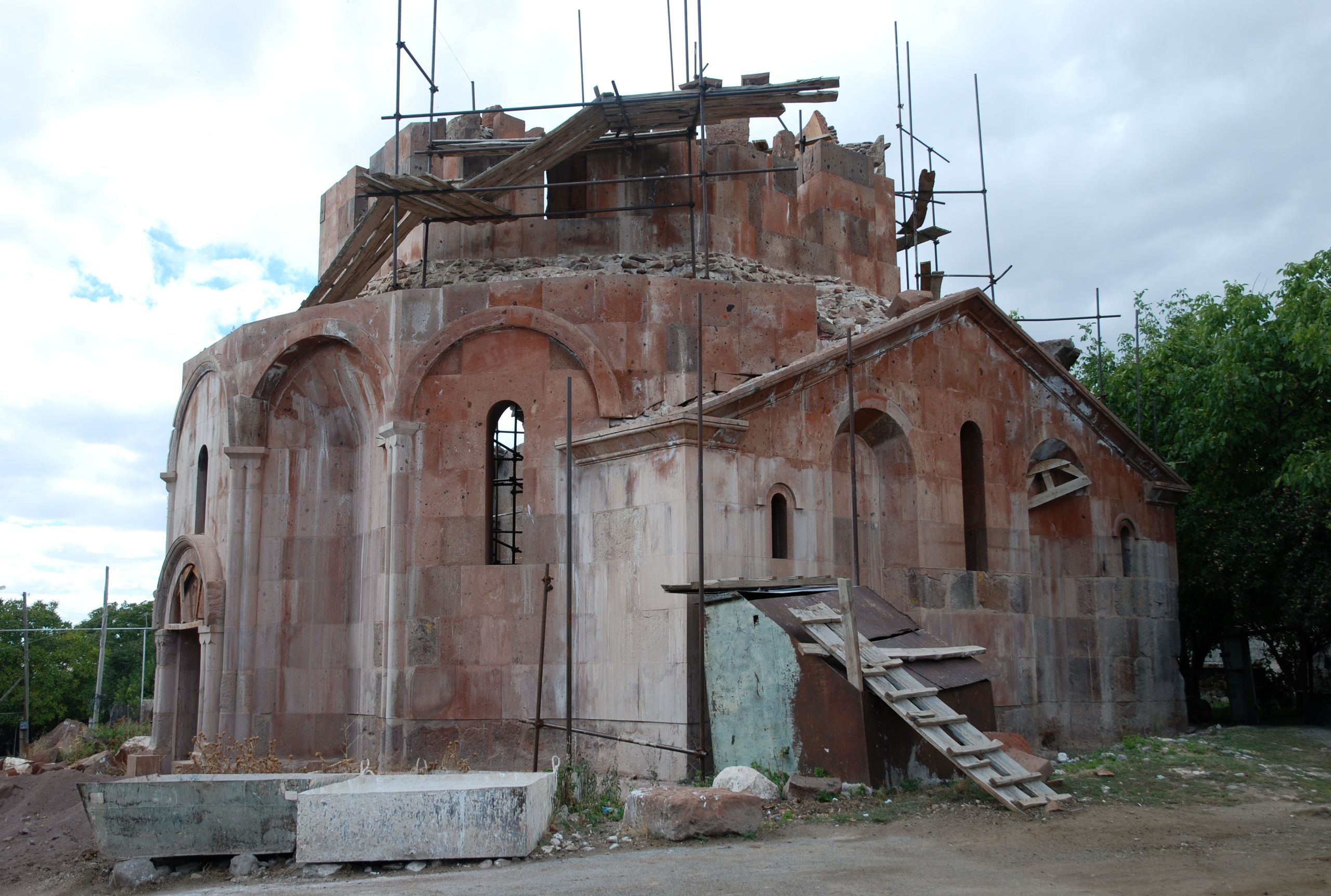 Irind, church from southeast